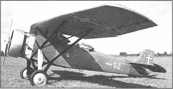 ANBO IV